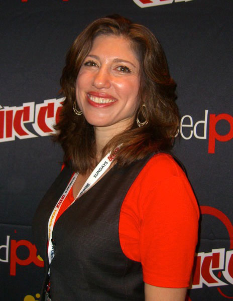 Novelist Alisa Kwitney following the Marvel Comics Prose Novels panel on Day 2 of the 2012 New York Comic Con, Friday October 12, 2012 at the Jacob K. Javits Convention Center in Manhattan. This photo was created by Luigi Novi. It is not in the public domain, and use of this file outside of the licensing terms is a copyright violation.